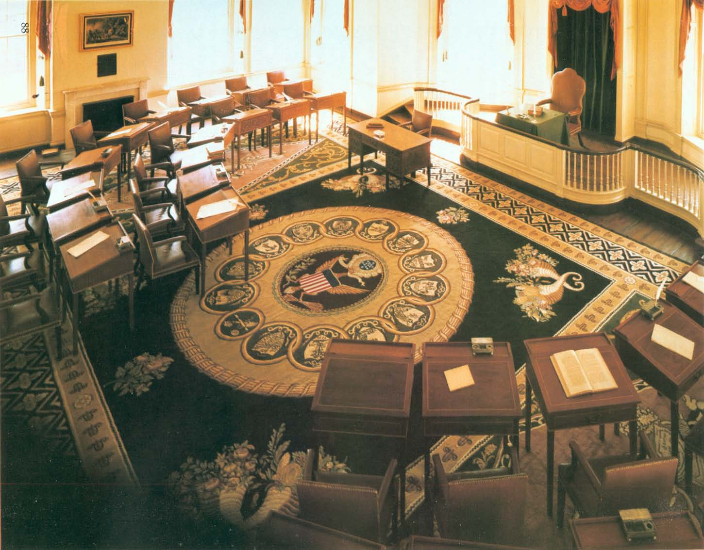 The restored Senate chamber of Congress Hall in Philadelphia, shortly after the rug (depicting the Great Seal of the United States surrounded by the shields of the 13 states) was reconstructed and placed in the room.